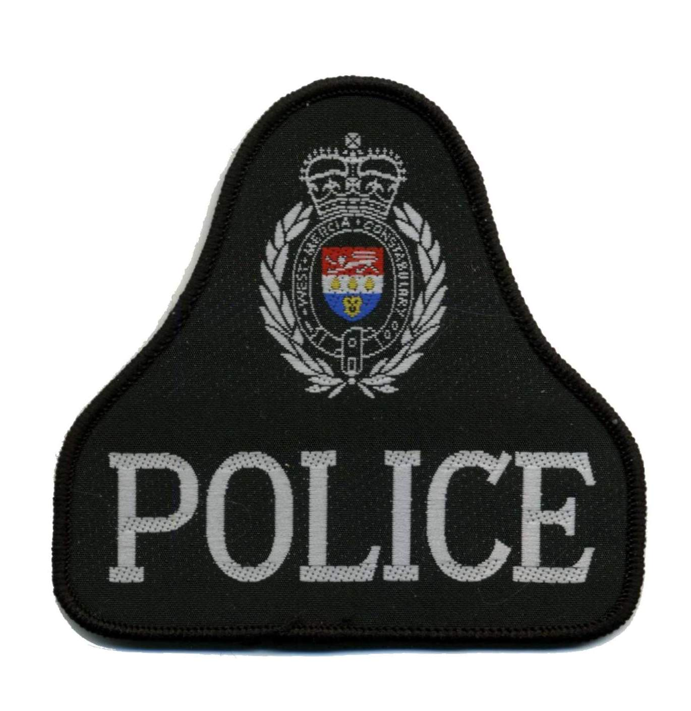 Part of my collection of UK Police insignia